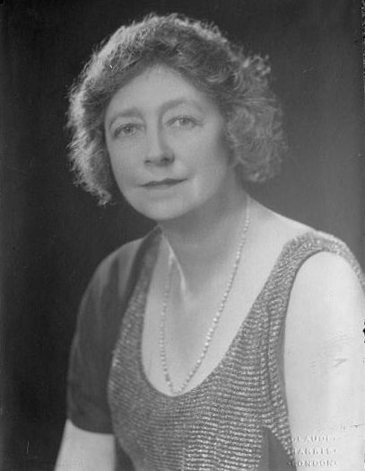 Photo of Dame May Whitty.